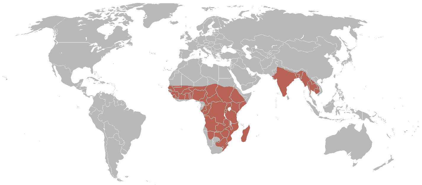 Knob-billed Duck Sarkidiornis melanotos distribution map